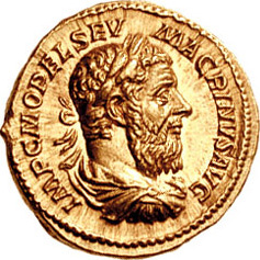 Macrinus. 217-218 AD. AV Aureus (7.51 gm, 6h). Struck 218 AD. IMP C M OPEL SEV MACRINVS AVG, laureate, draped, and cuirassed bust right, wearing long beard, seen from behind LIB-ERALITAS AVG, Diadumenian, bare-headed and togate, and Macrinus, laureate and togate, seated left on curule chairs set on low daïs, each extending right hand to small figure climbing stairs holding out fold of toga to receive tessera; Liberalitas standing left, holding abacus in right hand and cornucopia in left hand at fore-edge of daïs; lictor standing behind imperial pair, holding fasces. RIC IV 79; Clay Issue 3; BMCRE 71; Calicó 2947; Cohen 43.